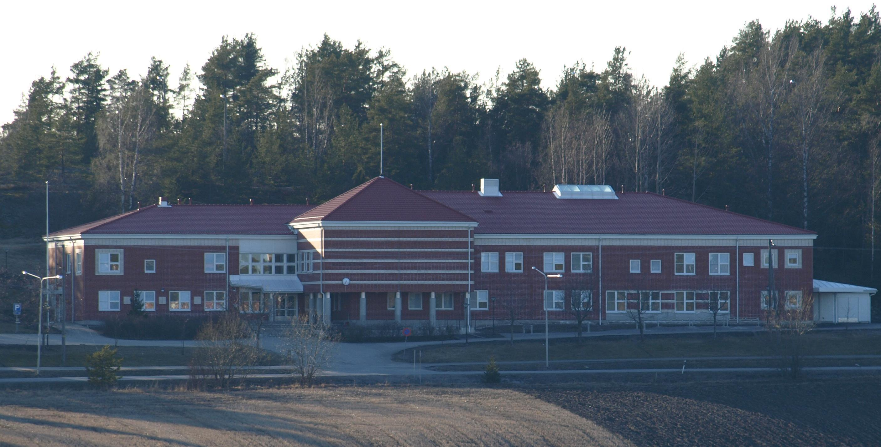 Gymnasium of Halikko in Salo, Finland